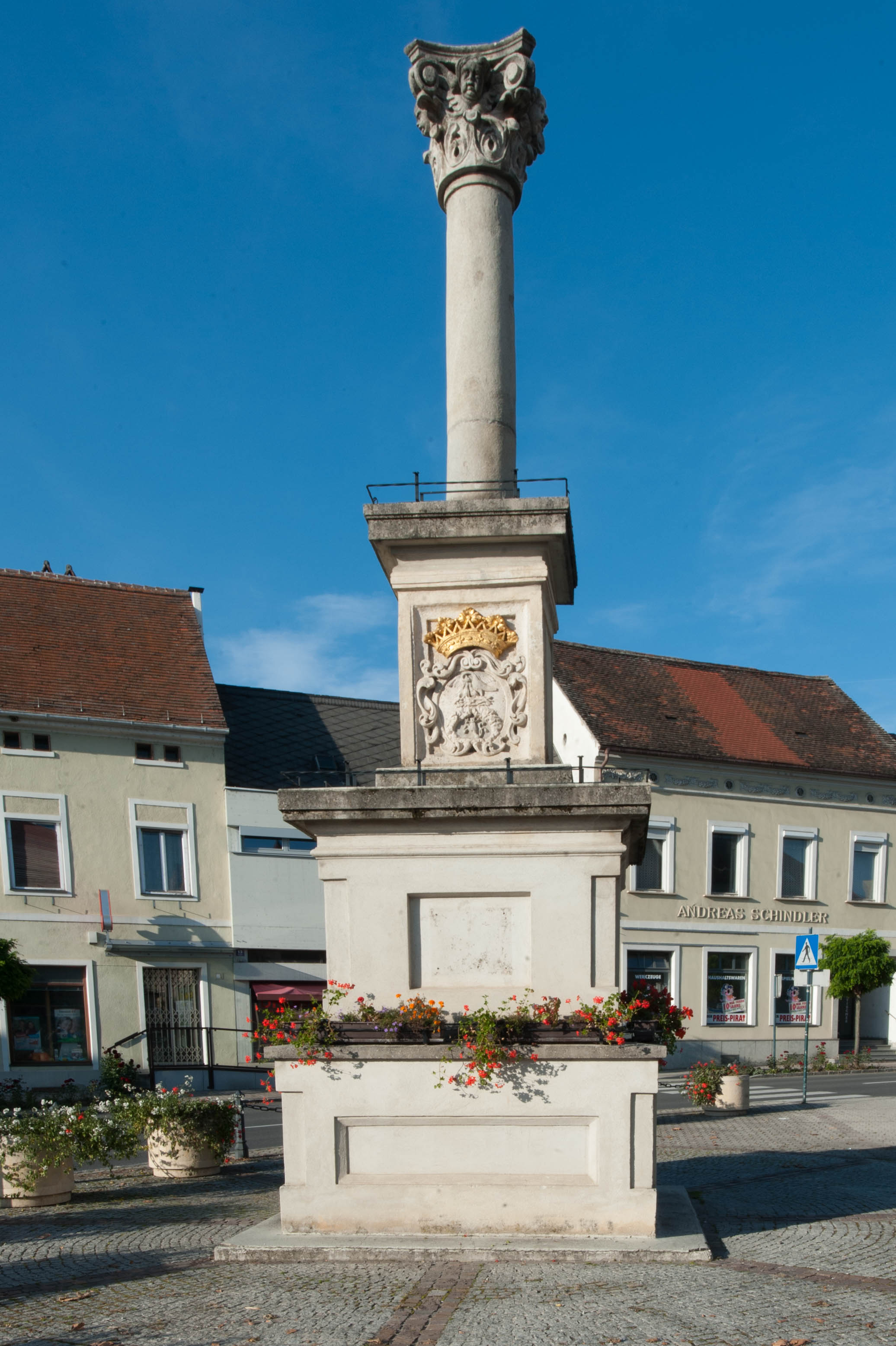 Wikipedia-Stammtisch Pinkafeld